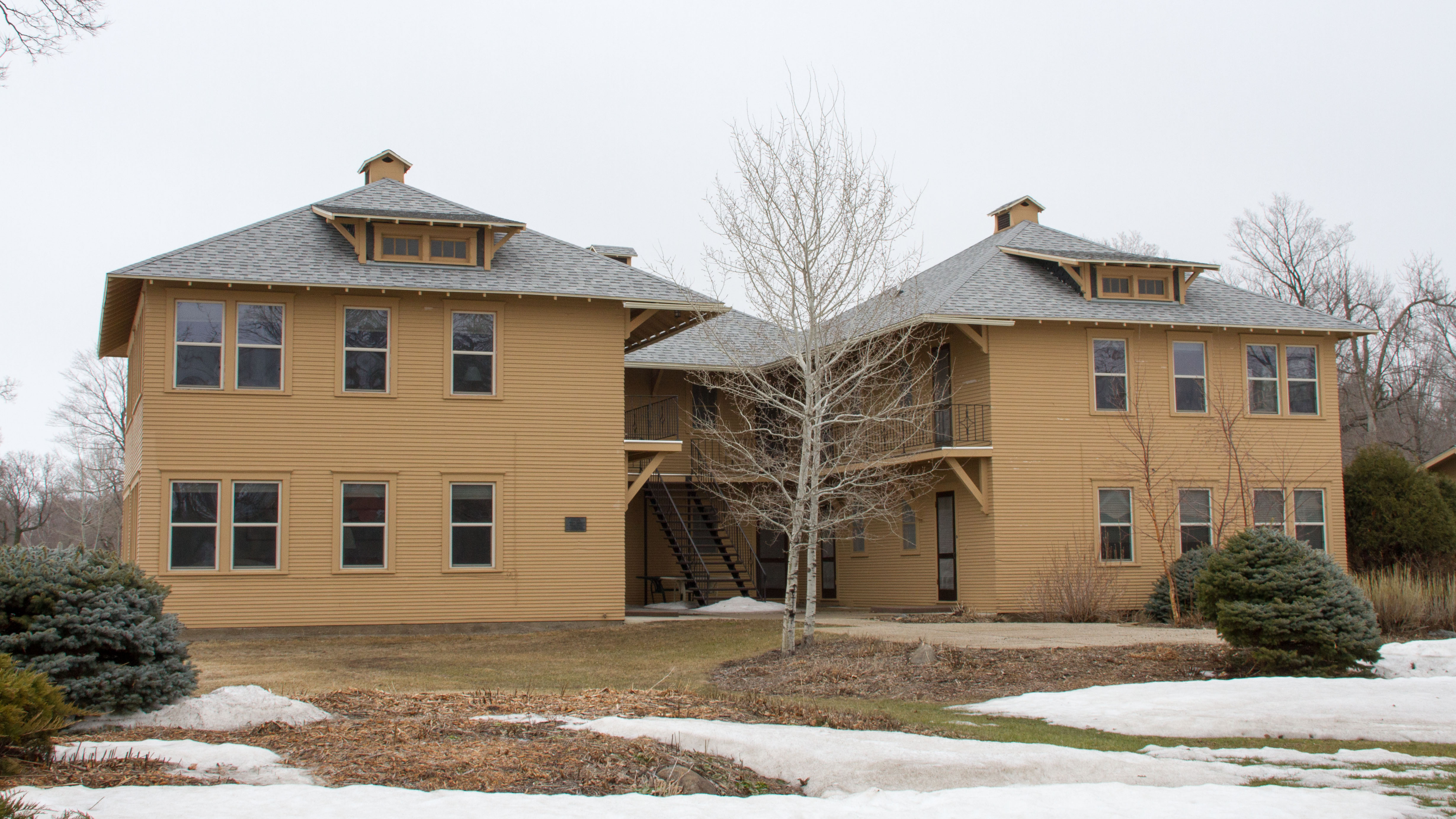 Court Building, Sunset Beach Hotel, Glenwood Township, Pope County, Minnesota, USA.